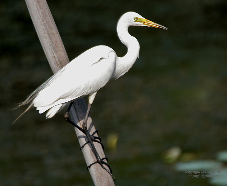 Intermediate Egret Ardea intermedia at Lotus Pond, Hyderabad, India.